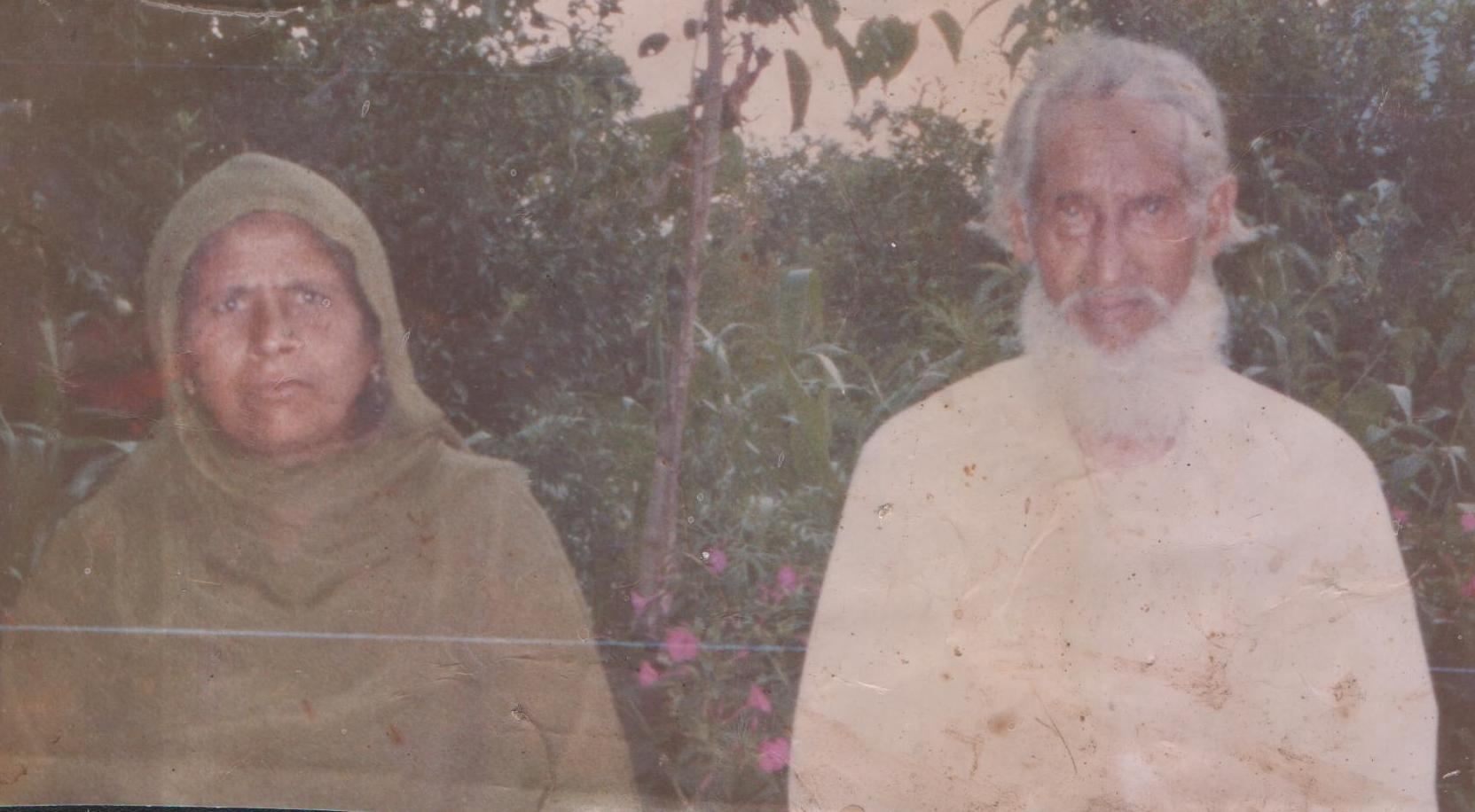 Parents of Qazi Mohammed Obaidullah Alvi